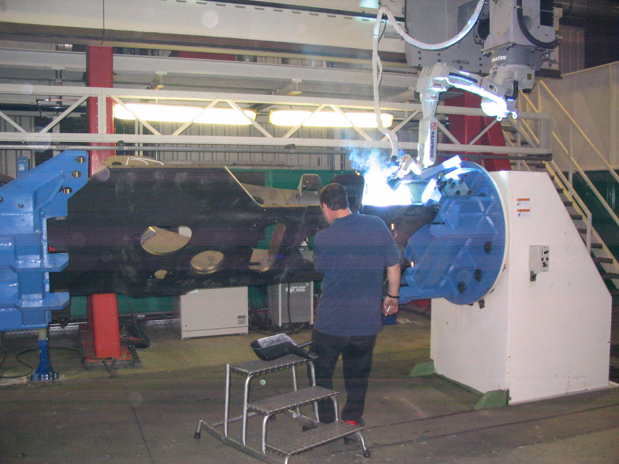 A photo of arc welding robot. The robot try to weld test pieace.